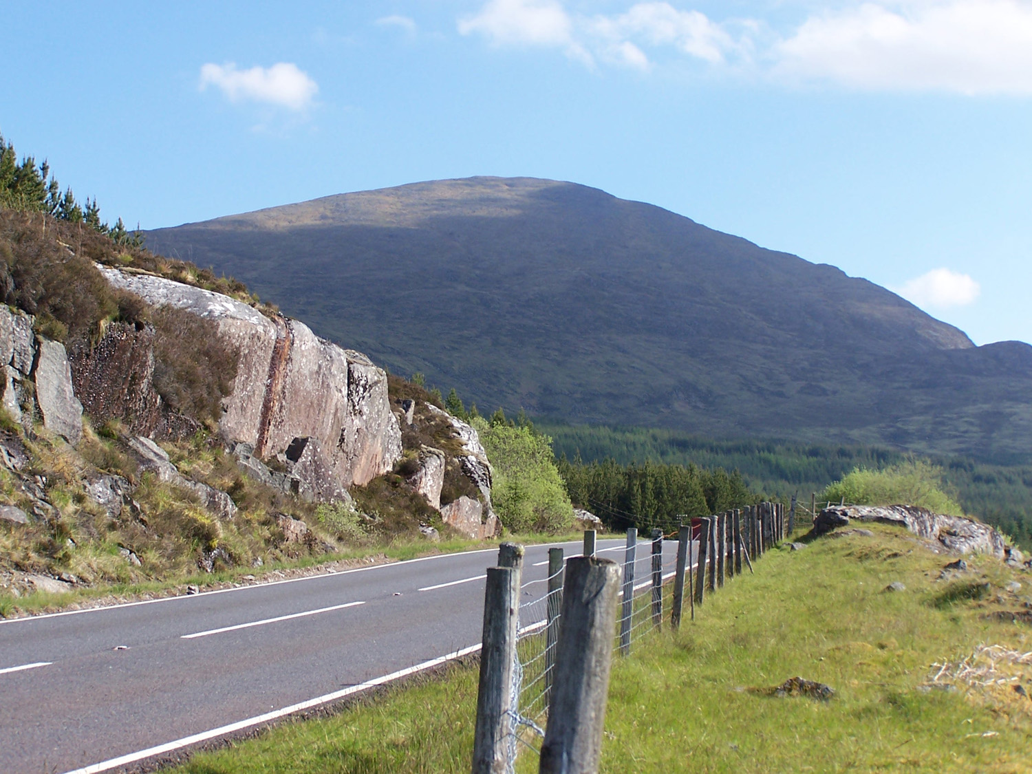 The mountain Beinn a' Chaorainn (Glen Spean) from the A86 road.